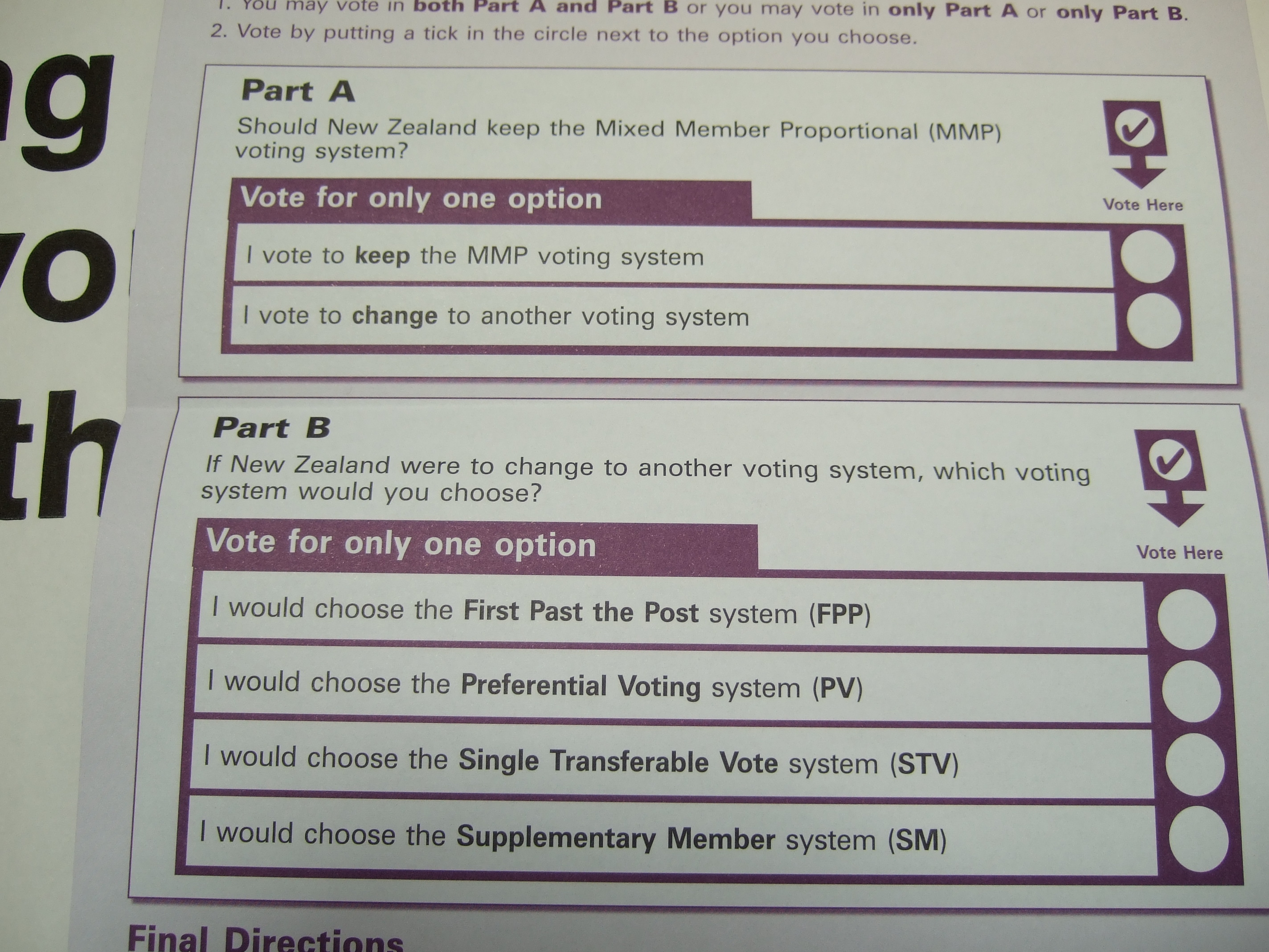 Ballot for Voting Systems referendum in 2011 New Zealand General election